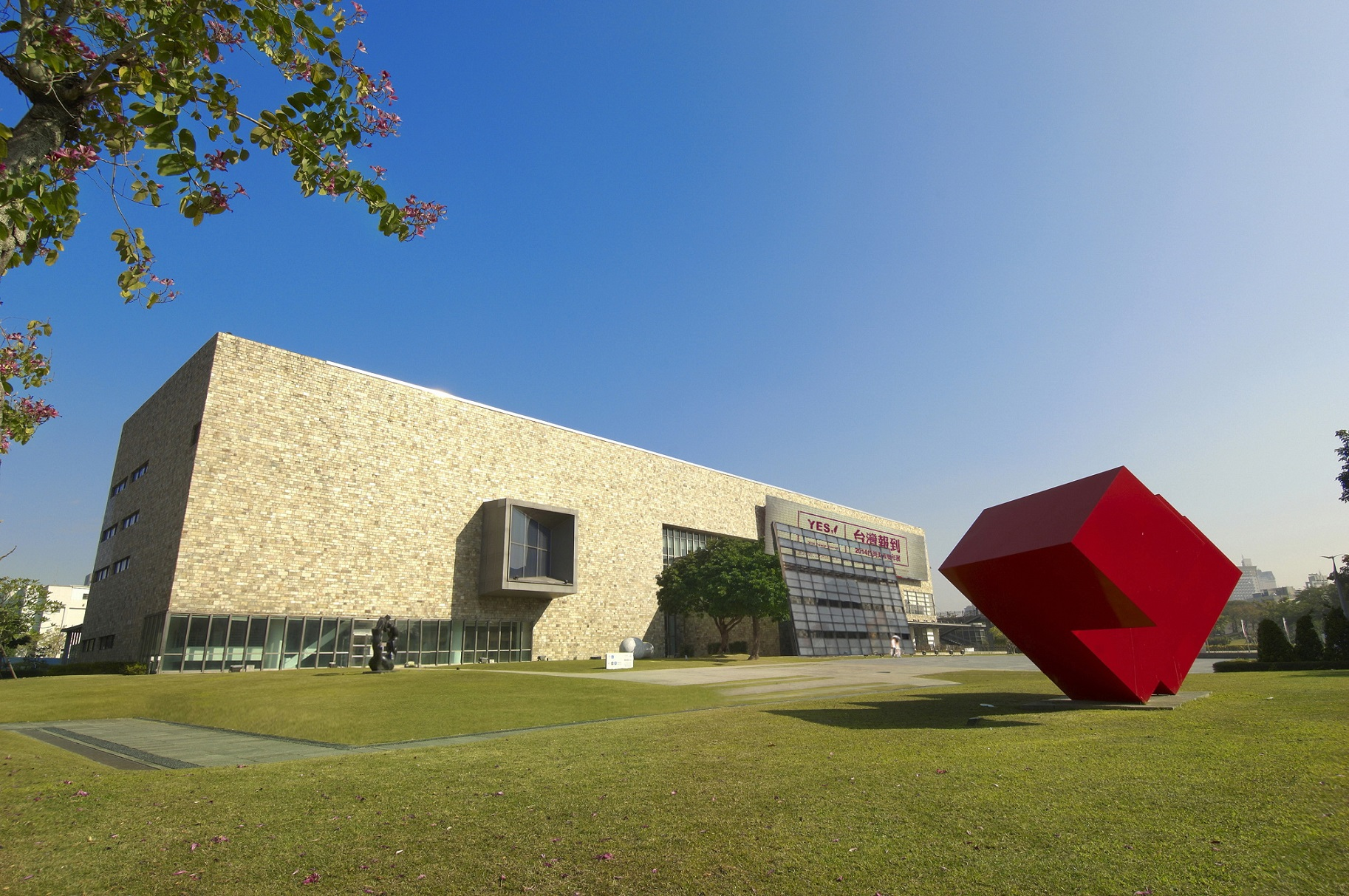 National Taiwan Museum of Fine Arts